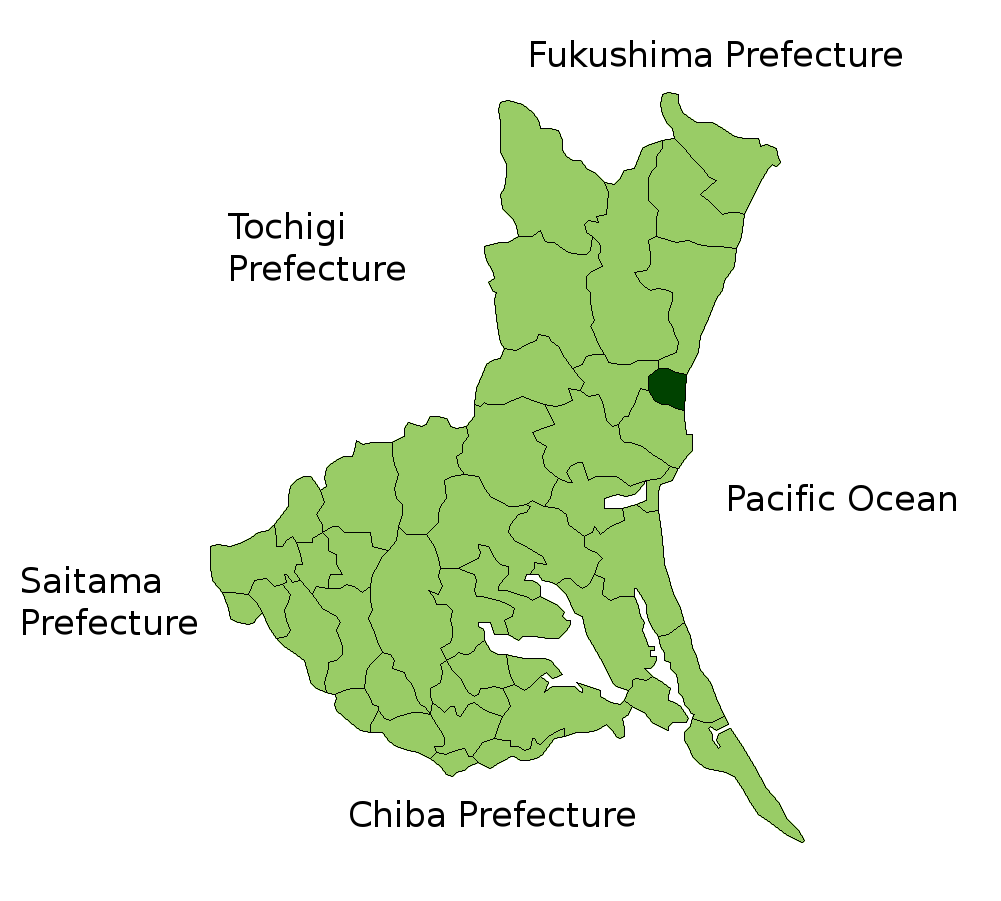 Location Map of a town in Ibaraki Prefecture, Japan